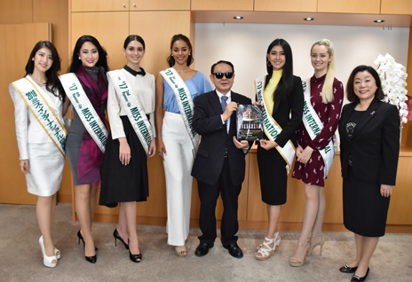 The delegates of the Miss International met Fumiaki Matsumoto, Senior Vice-Minister of Cabinet Office, in Japan on November 22, 2017.